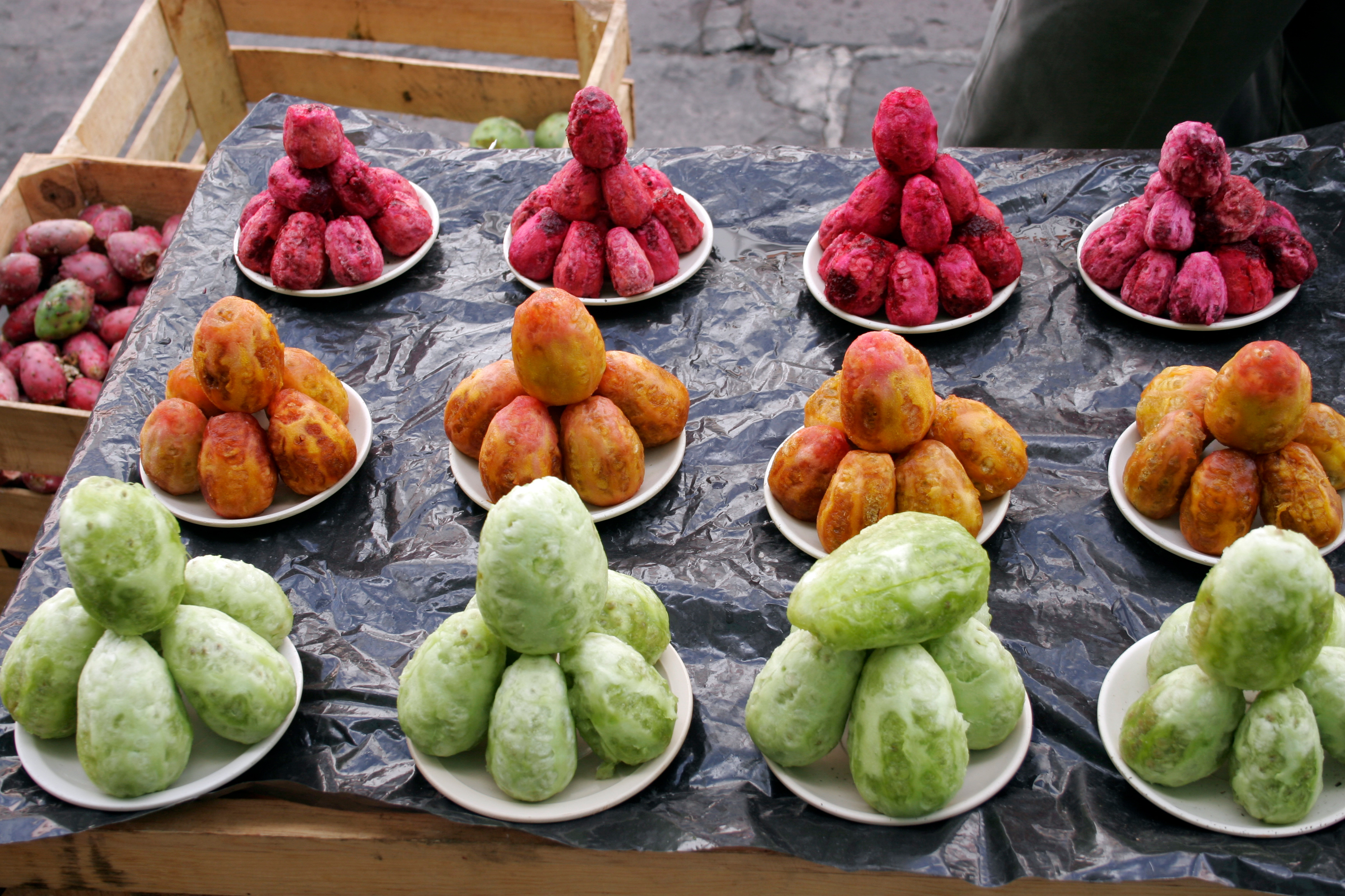 Prickly Pears